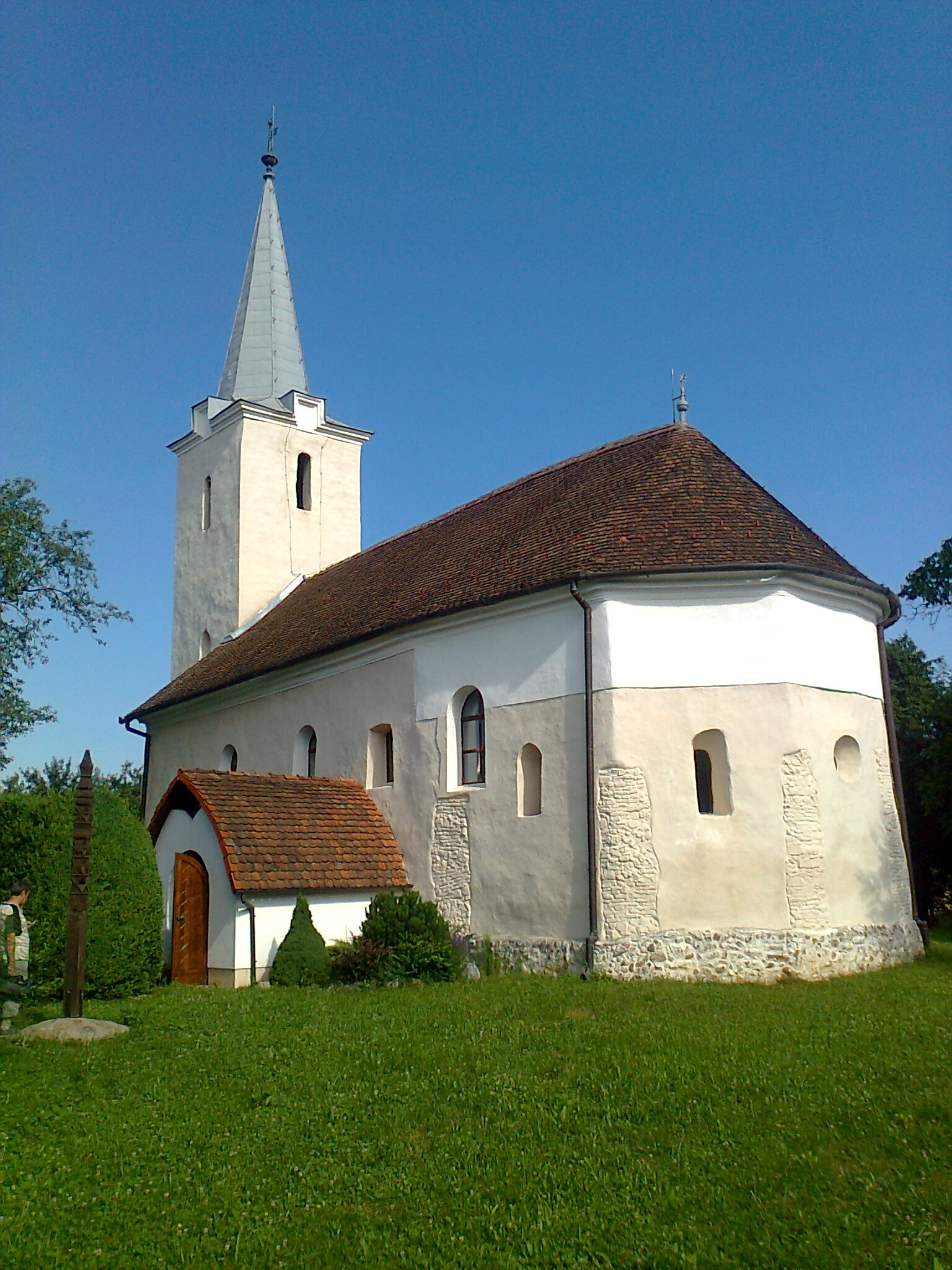 Reformed Church in Remetea (Romania) Bohor County